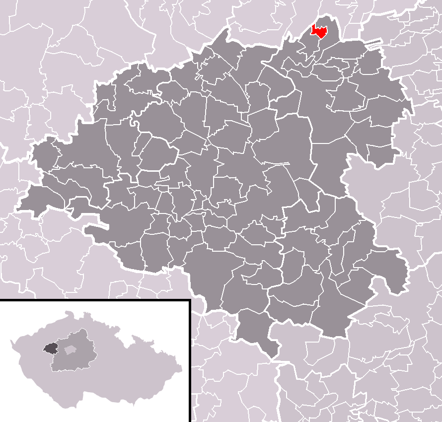 Location of Smilovice municipality within Rakovník District and (identical) administrative area of Rakovník as a Municipality with Extended Competence.